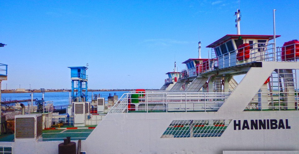 Transport between Djerba island and EL Jorf Village